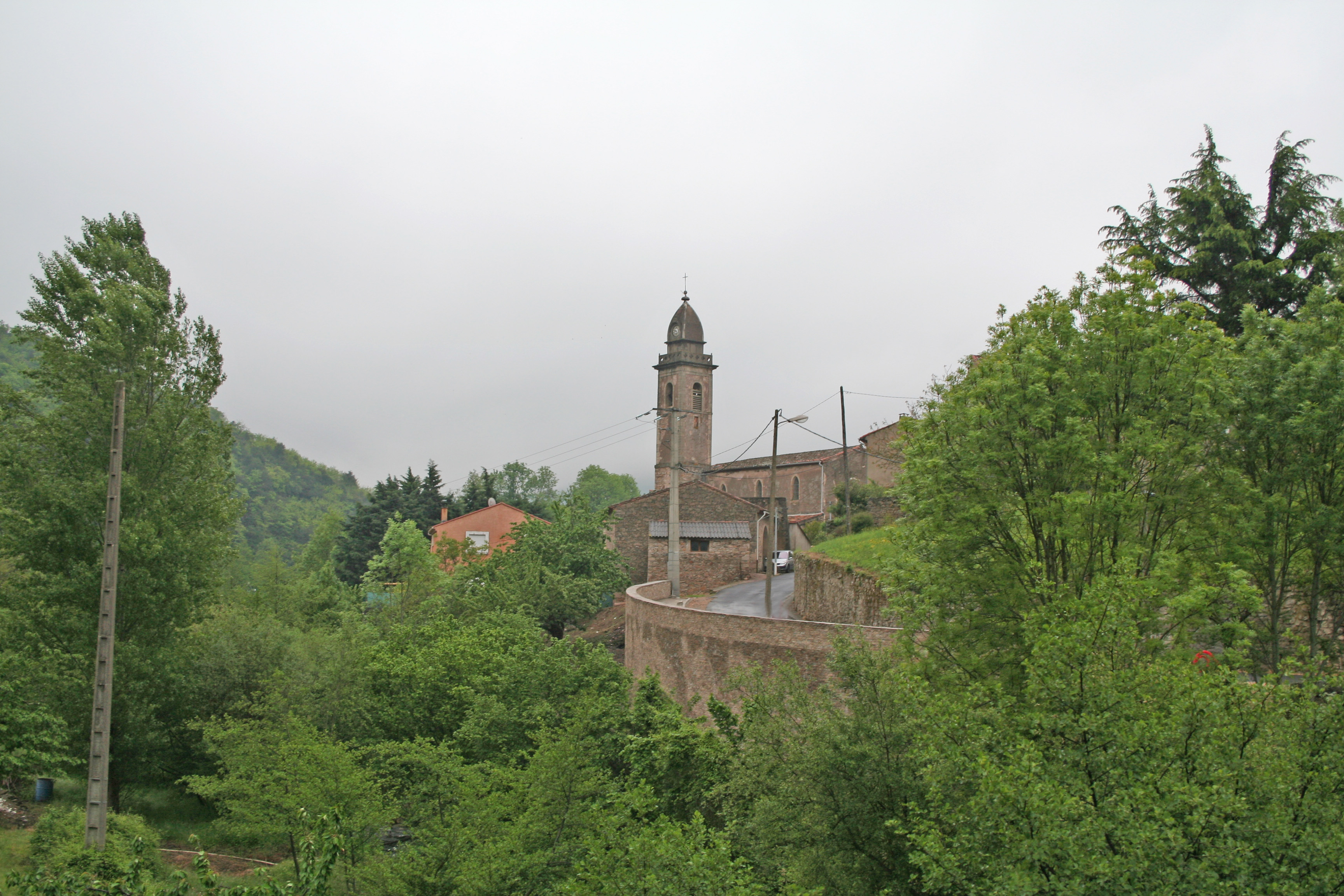 Camplong (Hérault) - church.